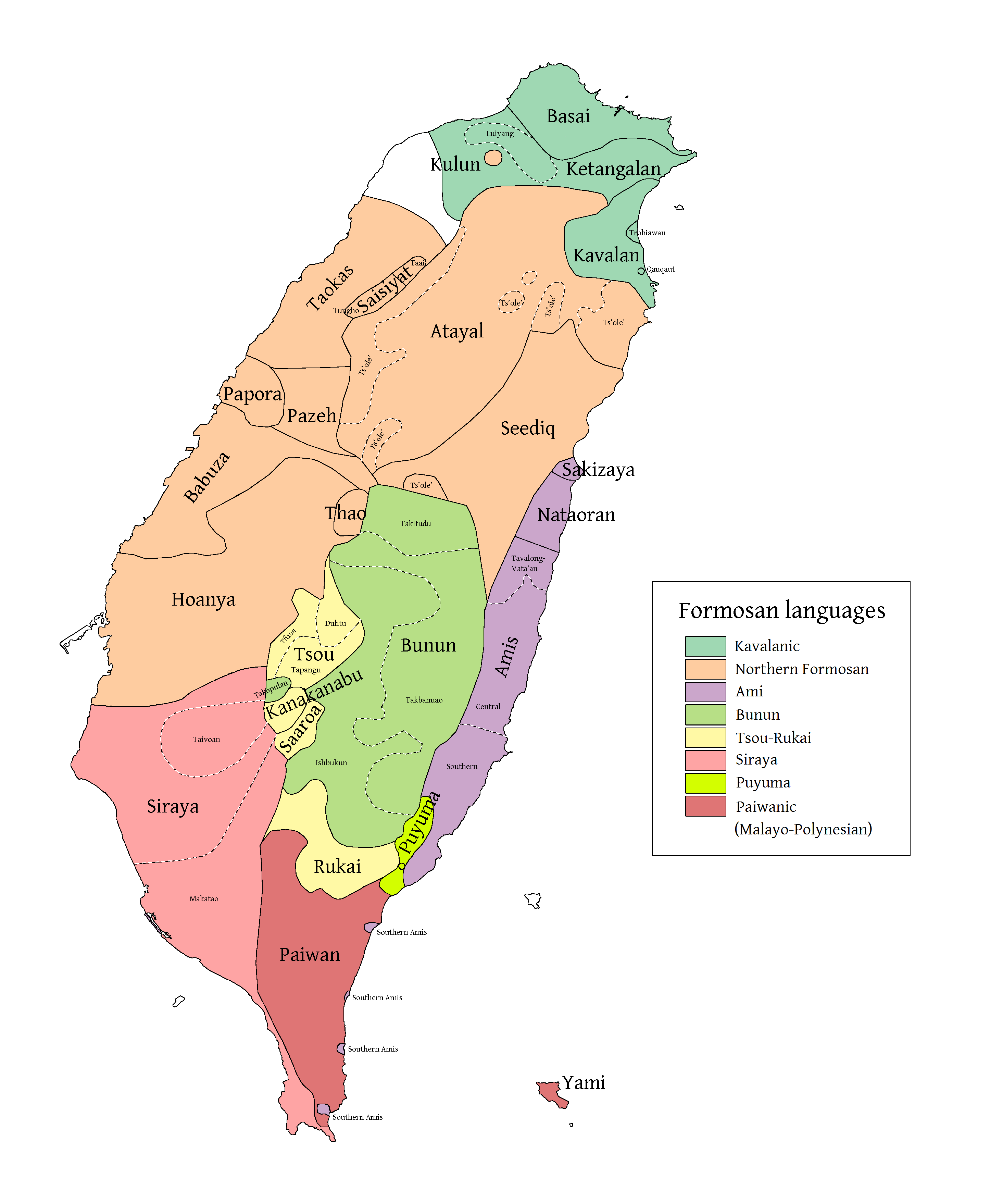 Distribution of Formosan languages before Chinese colonization. Classification from Austronesian Basic Vocabulary Database, distribution from Tsuchida 1983, naming from Ethnologue